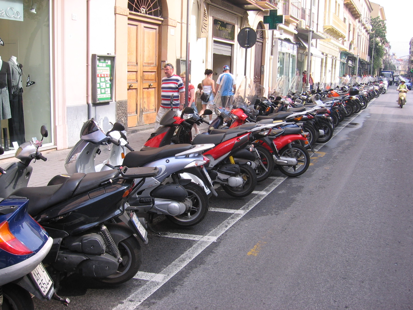 Parking lots for motor scooters in Sorrento